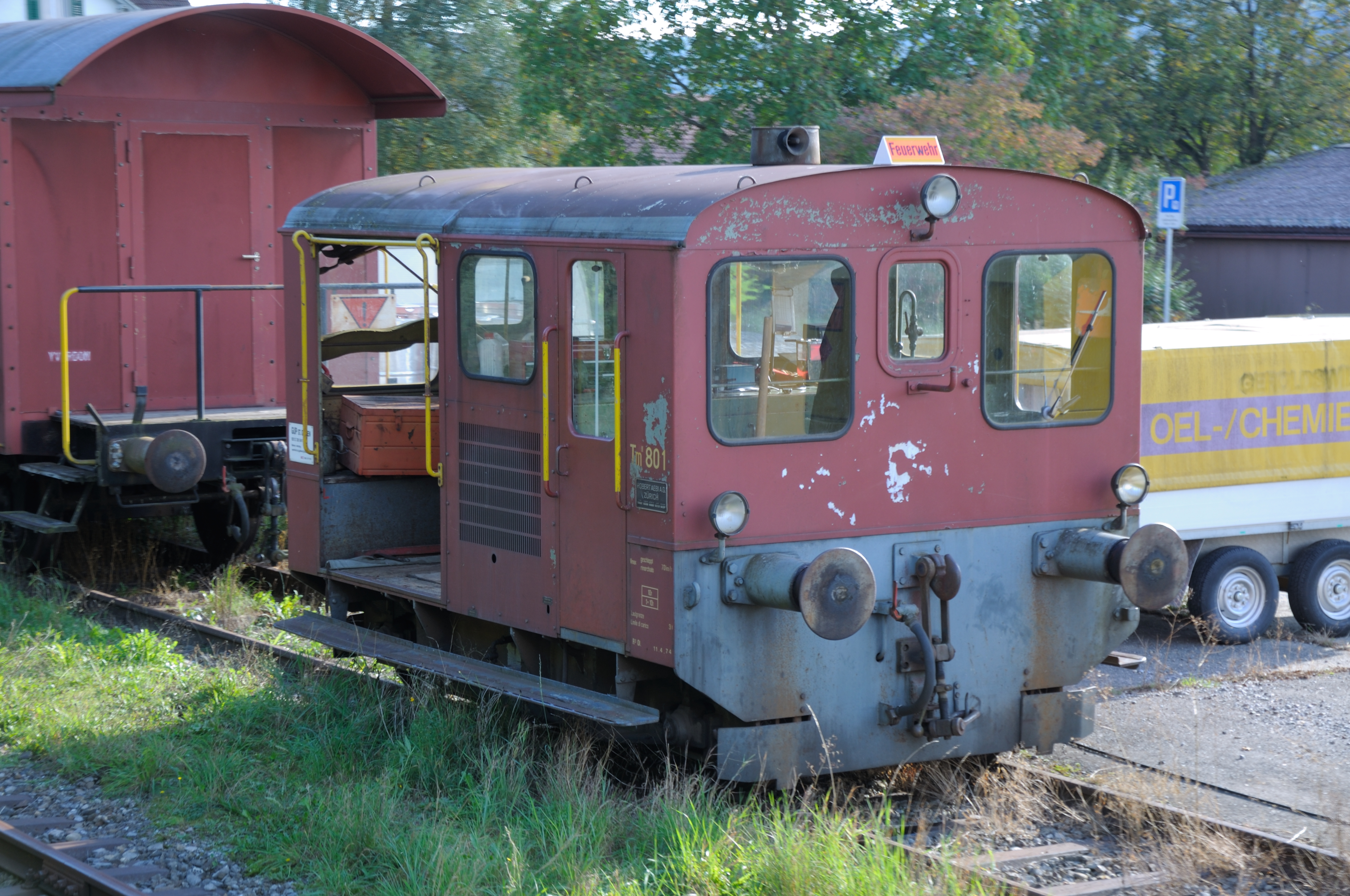 Switzerland, Canton of Schaffhausen, views along the museum railway line between Rielasingen (Germany) and Etzwilen (Switzerland)